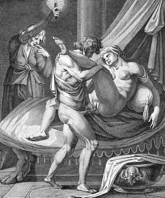 Nominally Messalina, serving as a prostitute under the pseudonym of Lisisca (literally, 'Messalina in Lisisica's booth'), deriving from accounts such as this one of Juvenal's